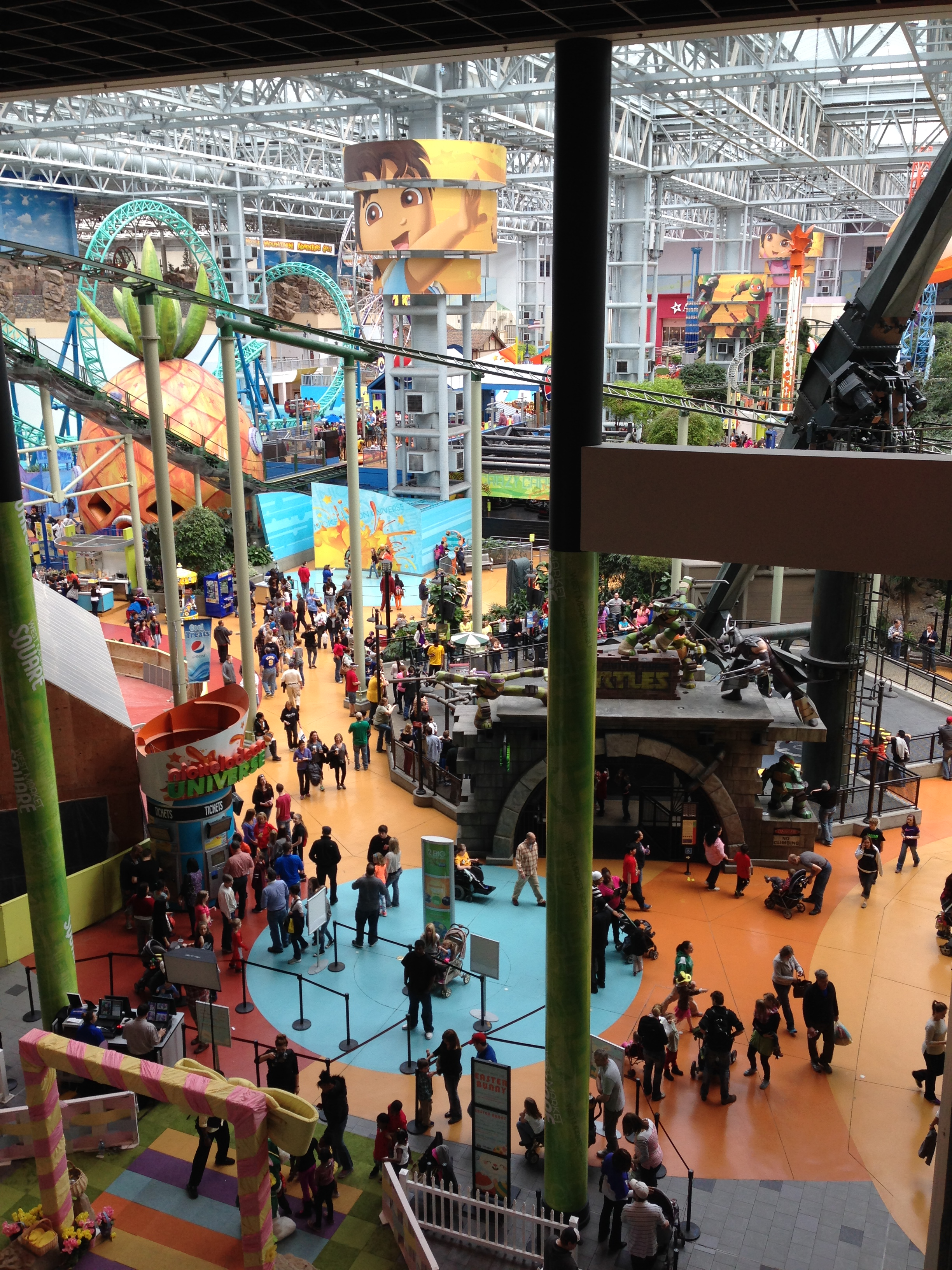 Interior of Mall of America in Bloomington, Minne